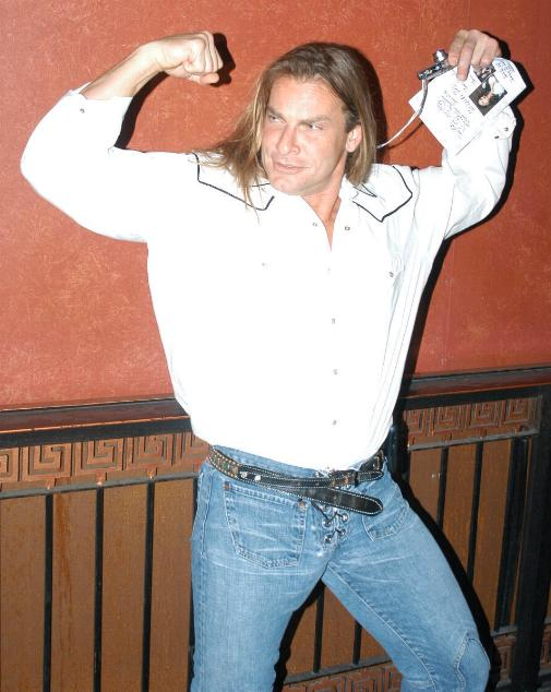 April 5 2007: XRCO Awards 2007.